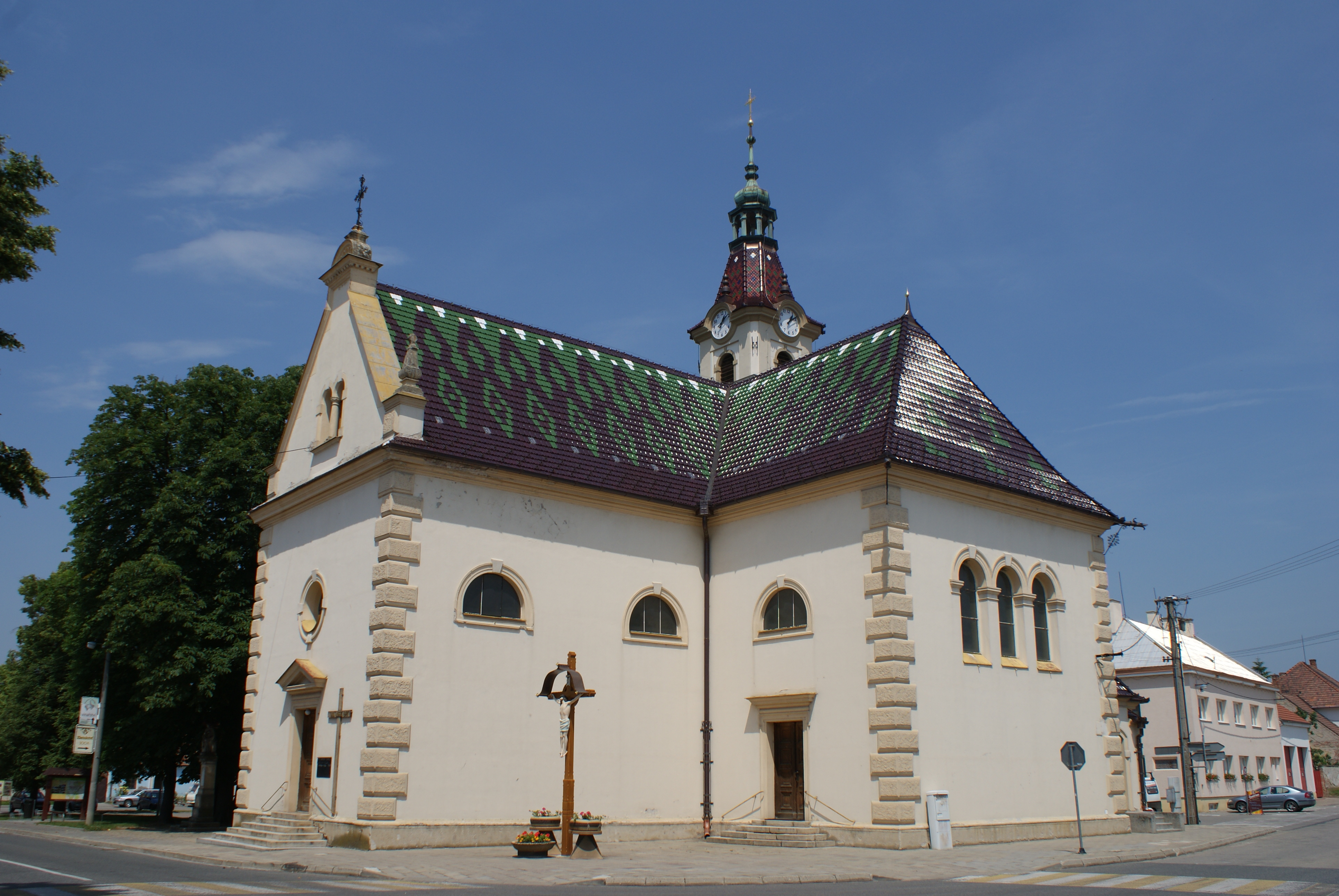 Lanžhot, a town in Břeclav District, Czech Republic, church of the Exaltation of the Holy Cross .